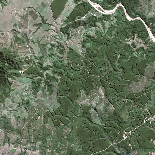 Atlantic Forest by SPOT Satellite